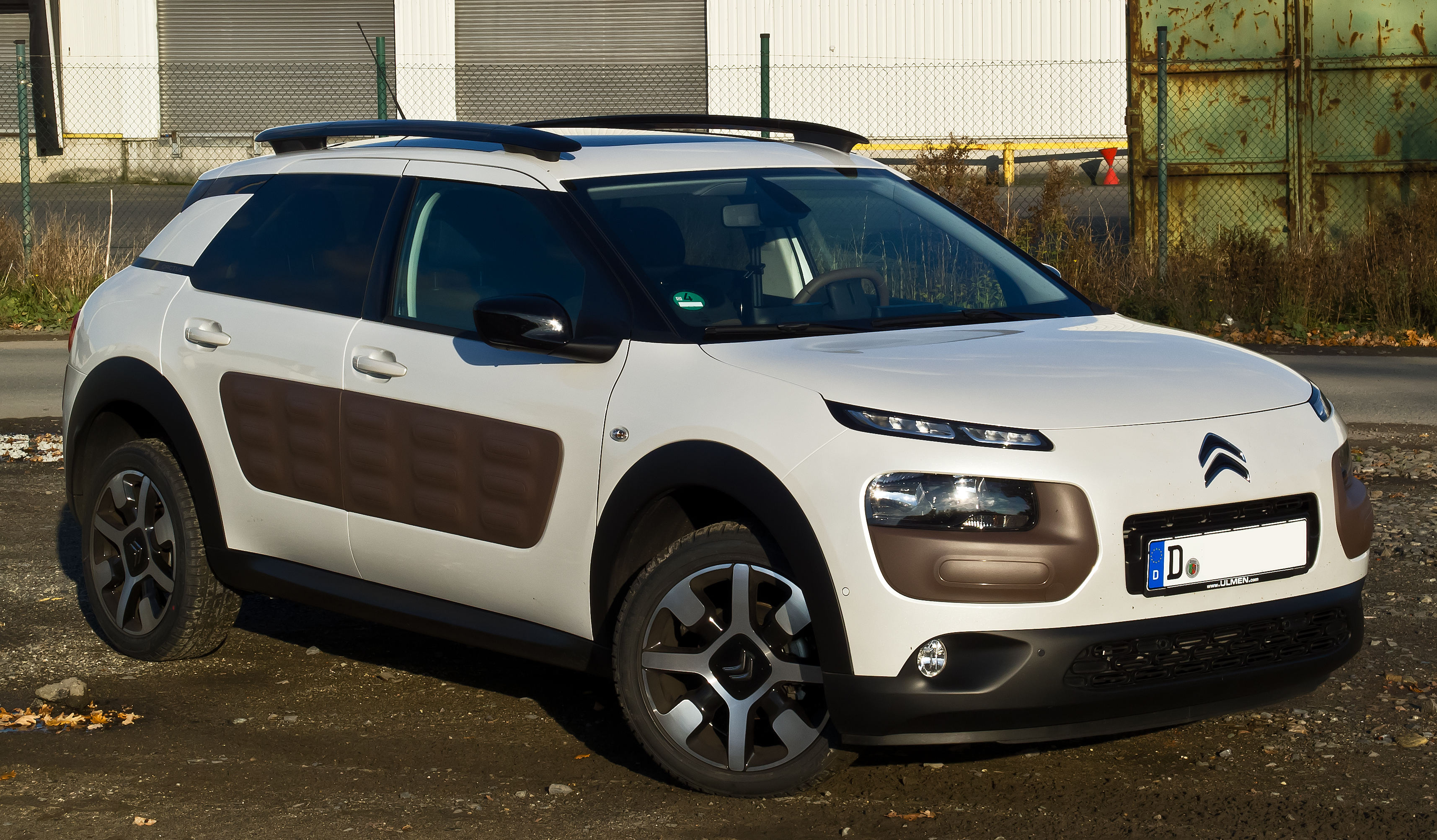 Citroën C4 Cactus BlueHDi 100 Shine Edition